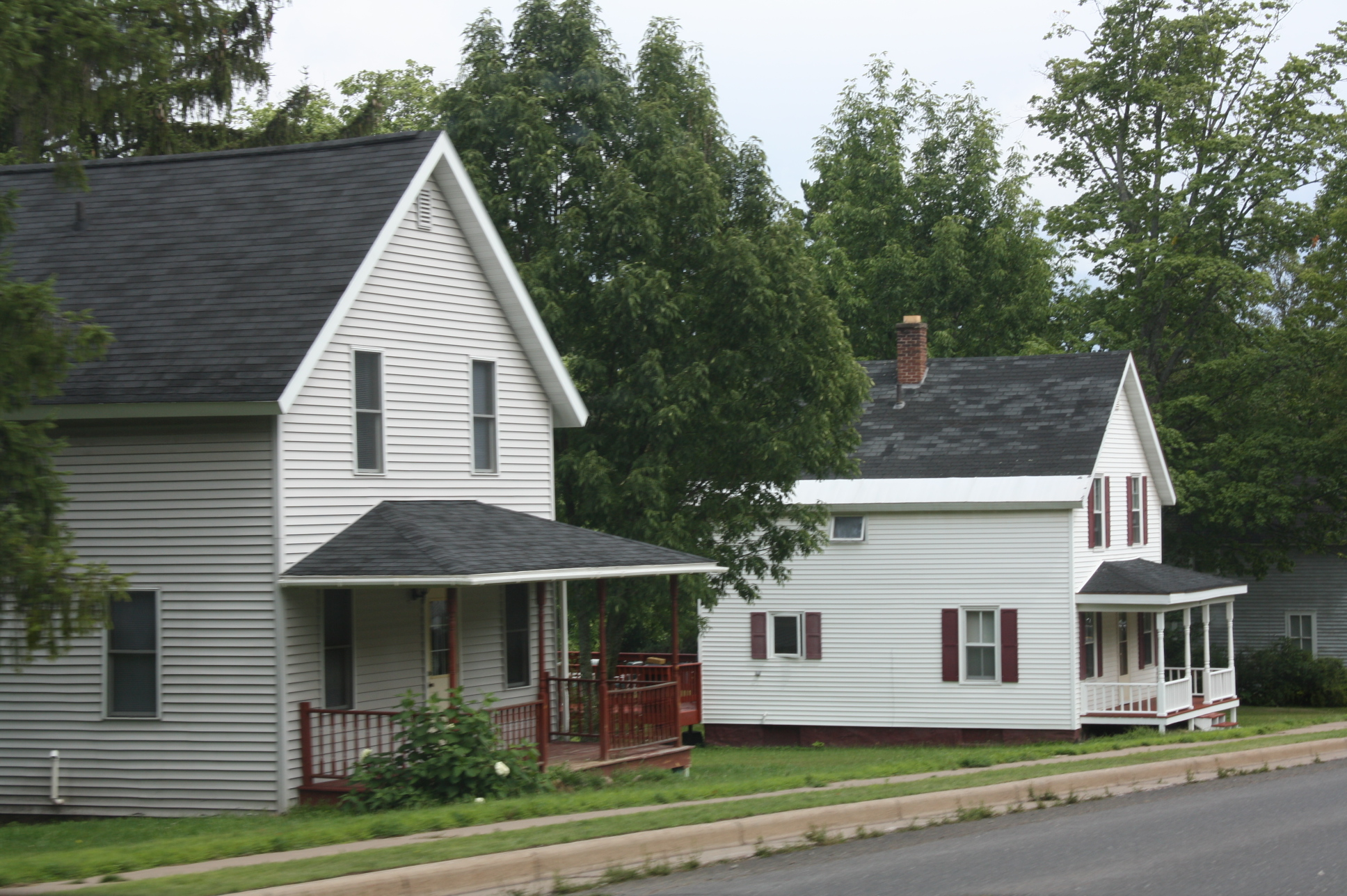 Two of the larger-style houses most prolific in the Montreal Company Location Historic District